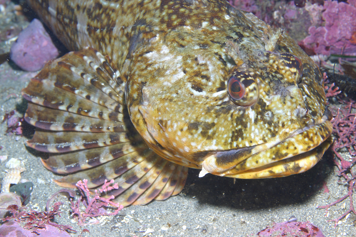 The cabezon Scorpaenichthys marmoratus is well known for its large head. This photo was taken with a strobe at high power.